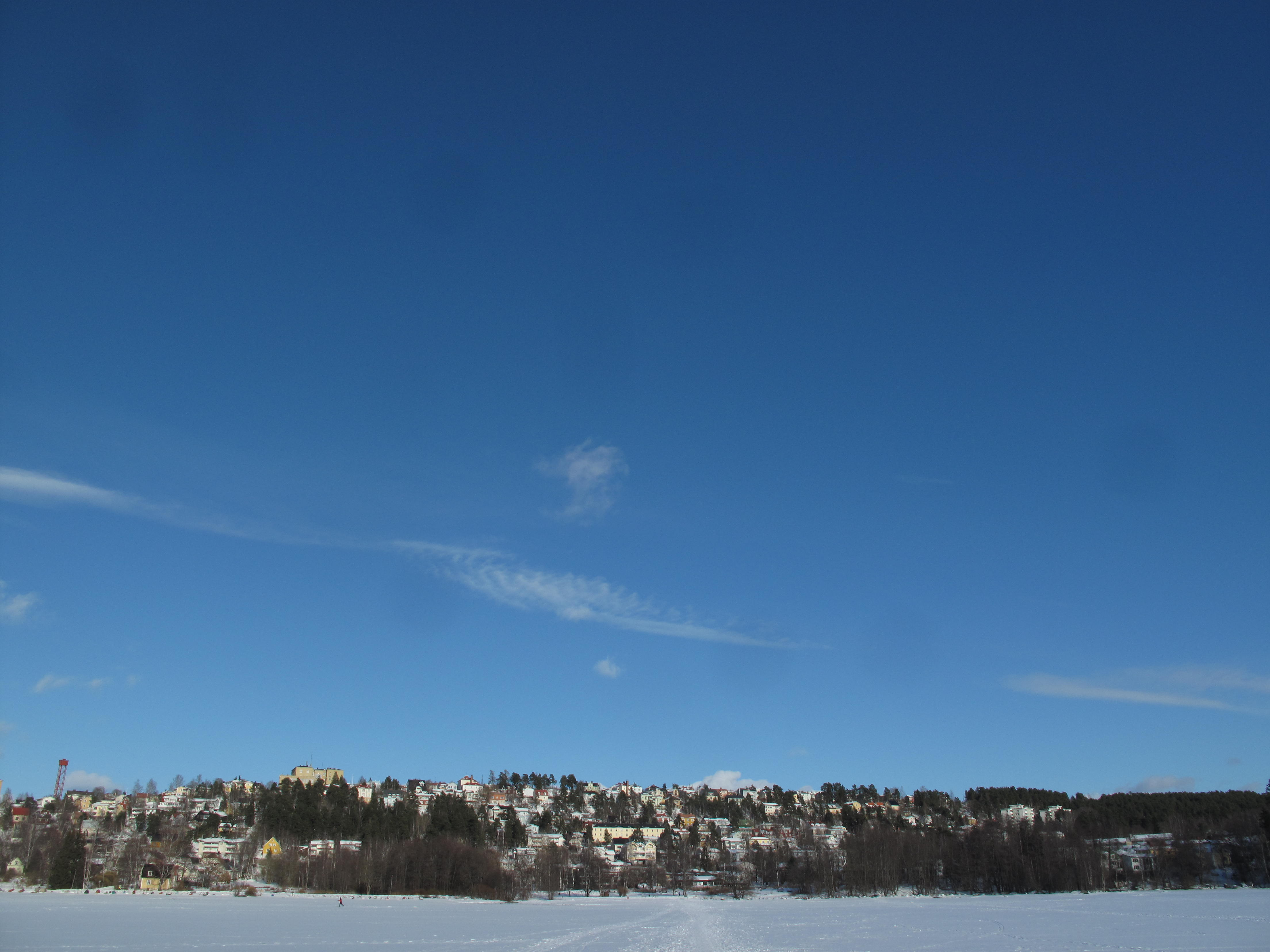 District of Ylä-Pispala from the direction of Pyhäjärvi (near Viikinsaari).